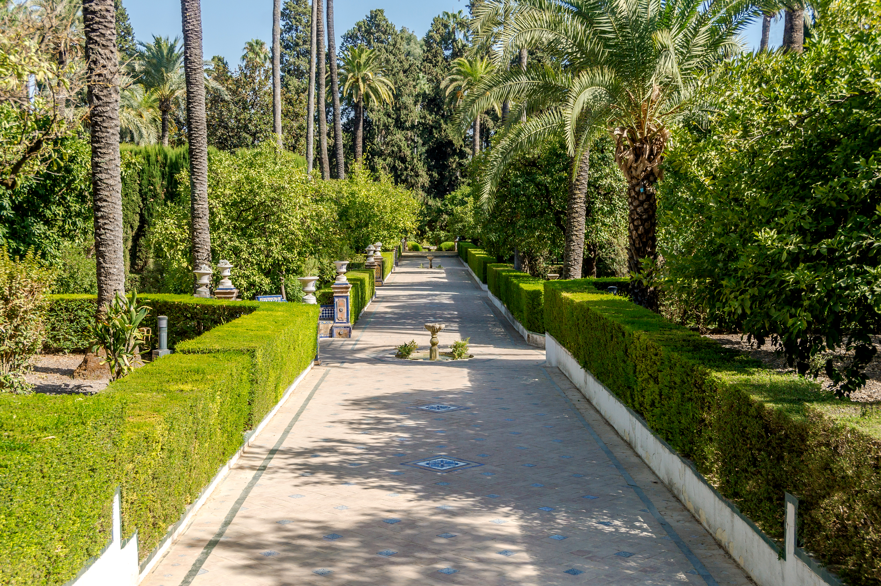 An alley in the gardens of the Alcazar of Seville, Spain.